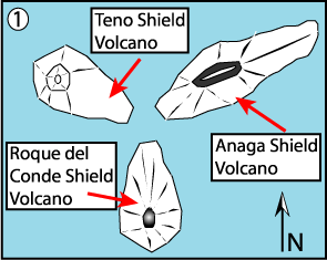 This is a very schematic diagram of the formation of the island of Tenerife and evolution of the current Teide volcano. In step one the island began as three separate shield volcanoes - Anaga to the NE, Teno to the NW and Roque del Conde to the south.